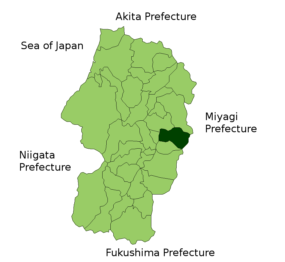 Location Map of Higashine in Yamagata Prefecture, Japan